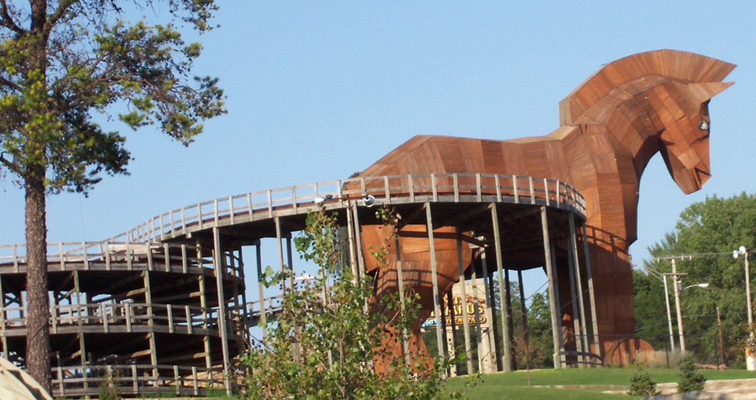 The Trojan horse at Mt. Olympus Water & Theme Park in Wisconsin Dells, Wisconsin, USA. Taken September 2, 2007 by myself.